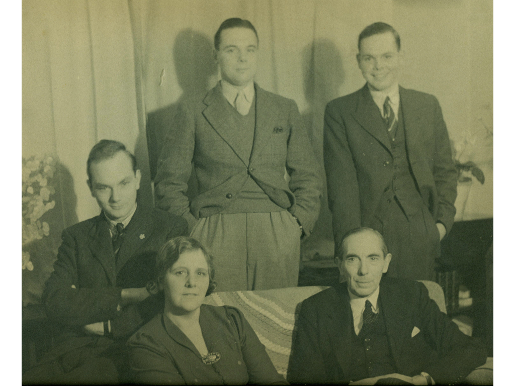 Sidney Wicks and Family, Dorothy, wife, and three sons, Left to right Cedric, David & Merlin 1930's